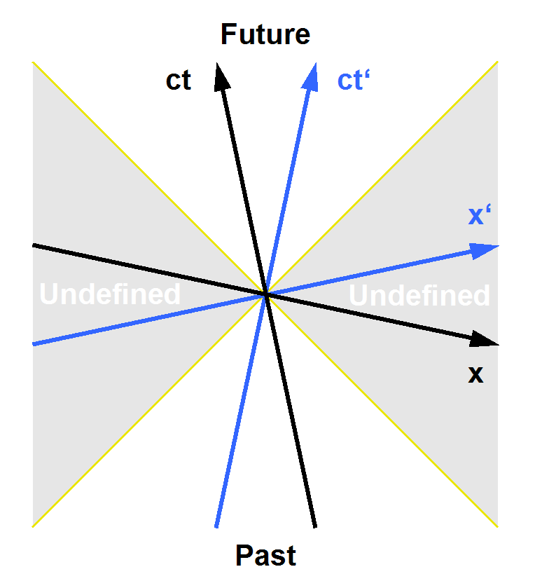 Past and future relative to the origin. For the grey areas a corresponding temporal classification is not possible.